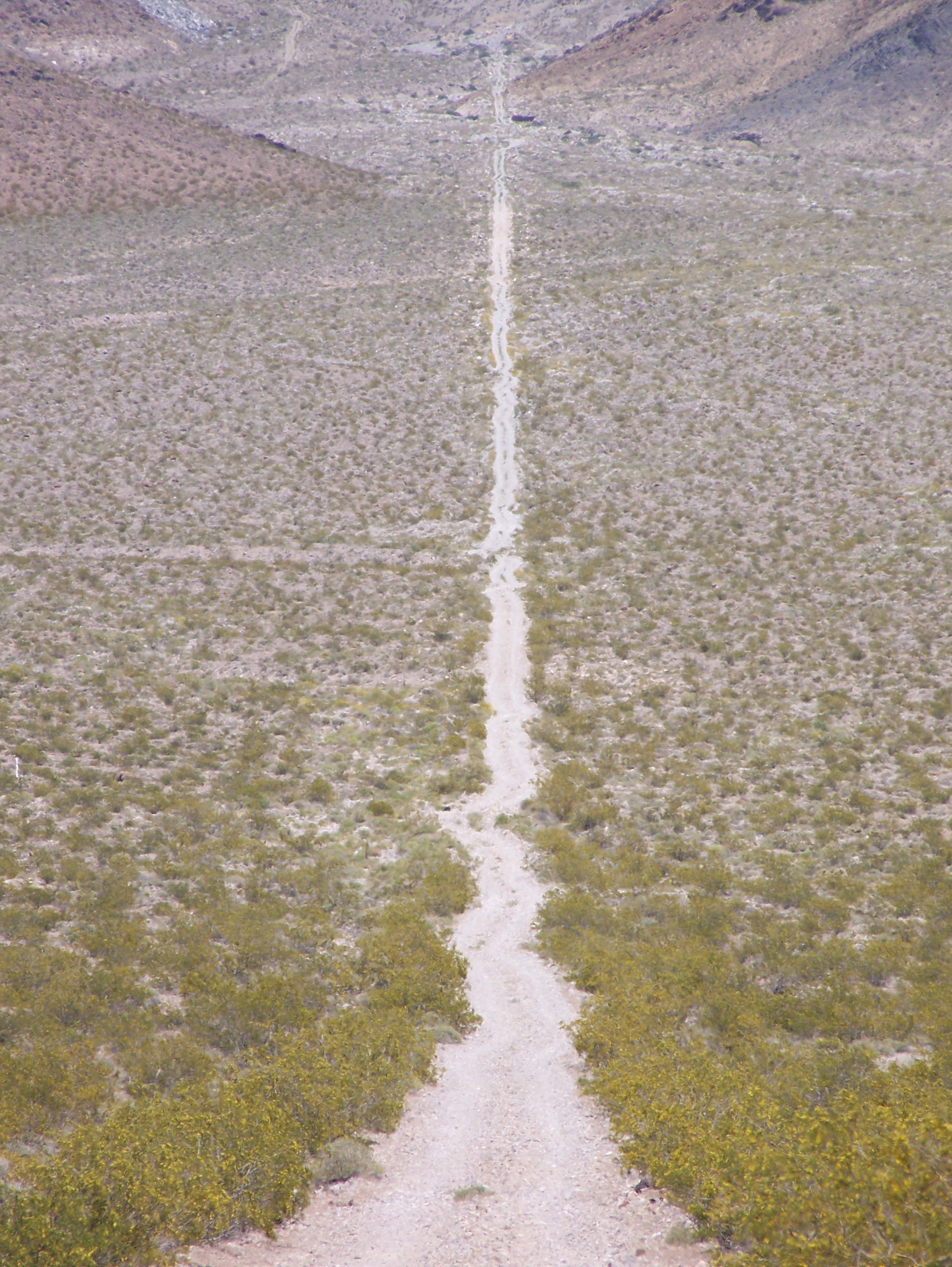 Road to Carrara, Nevada. The road to the quarry originally had a railroad track. The loaded car coming down pulled an empty back up with a cable system. Going West (behind me) this track connected with the Tonopah & Tidewater Railroad.